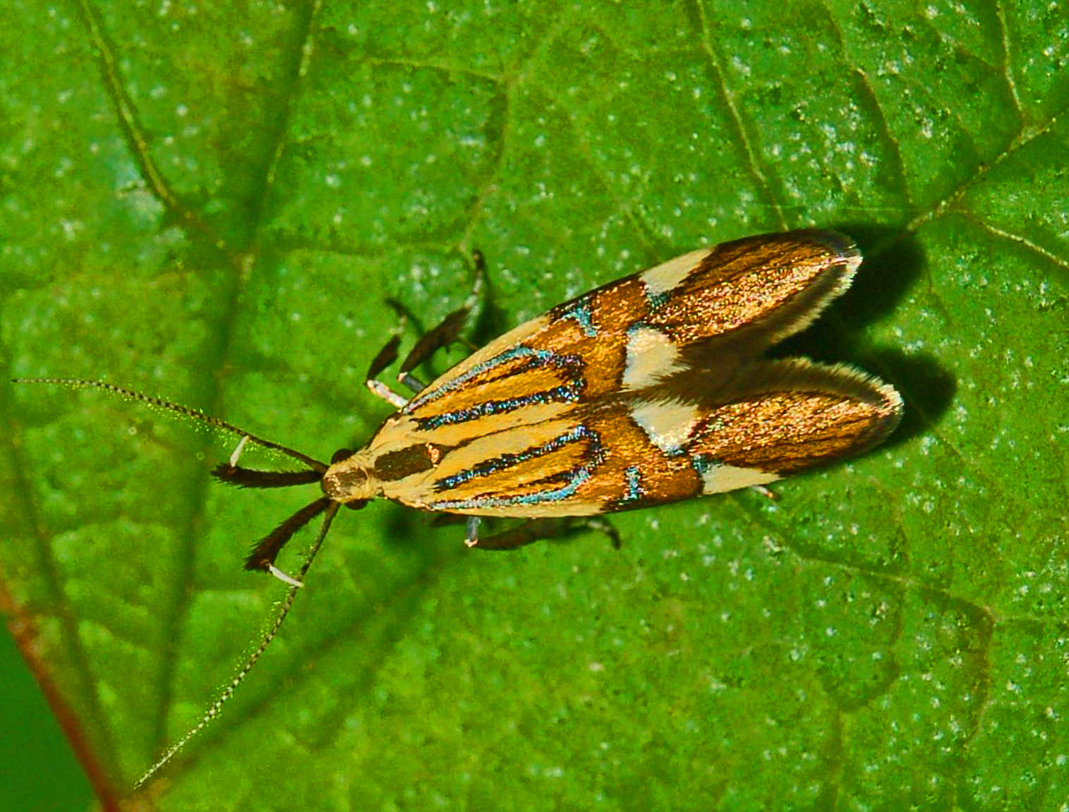 Alabonia geoffrella, lateral view. Val Noci, Genova, Italy